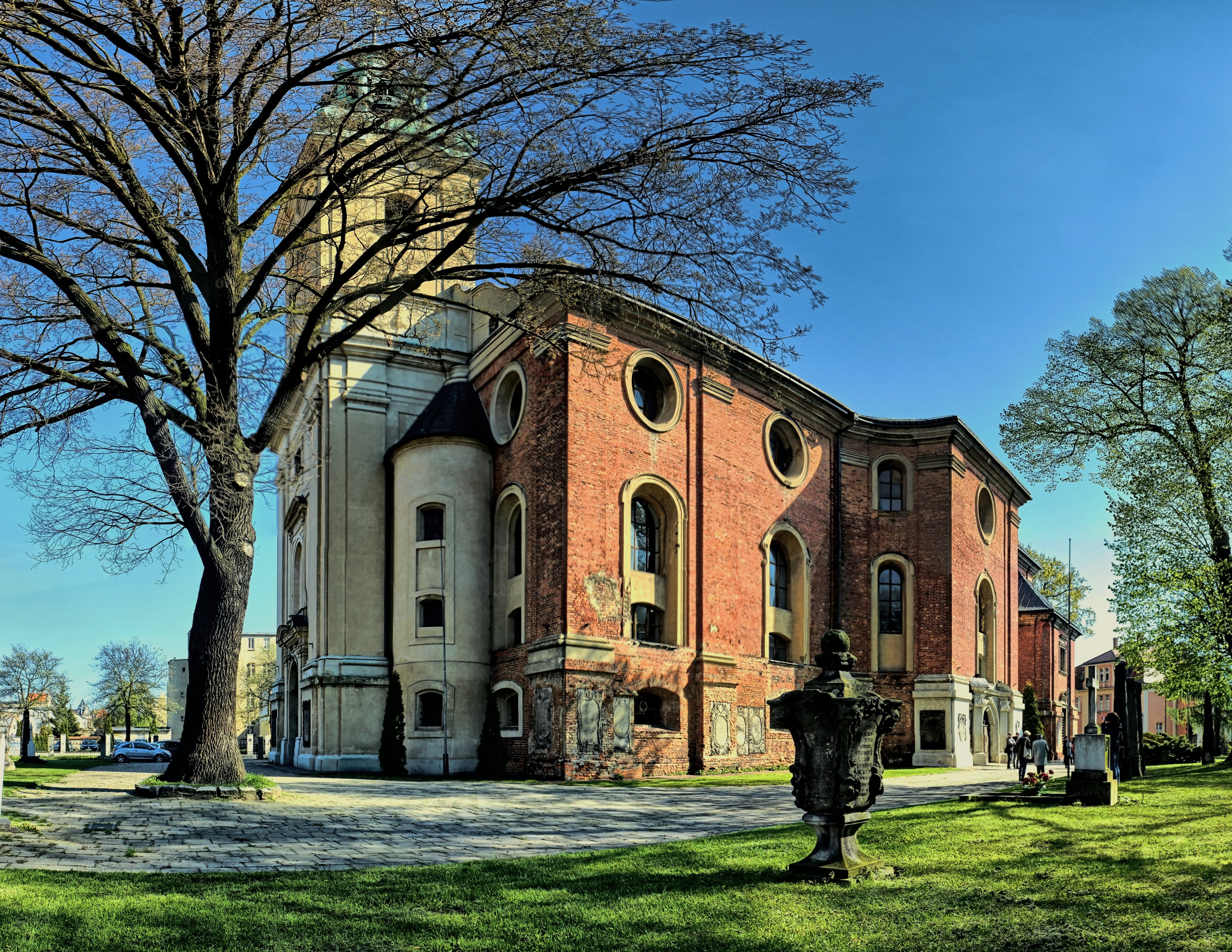 Leszno, Holy Cross Church